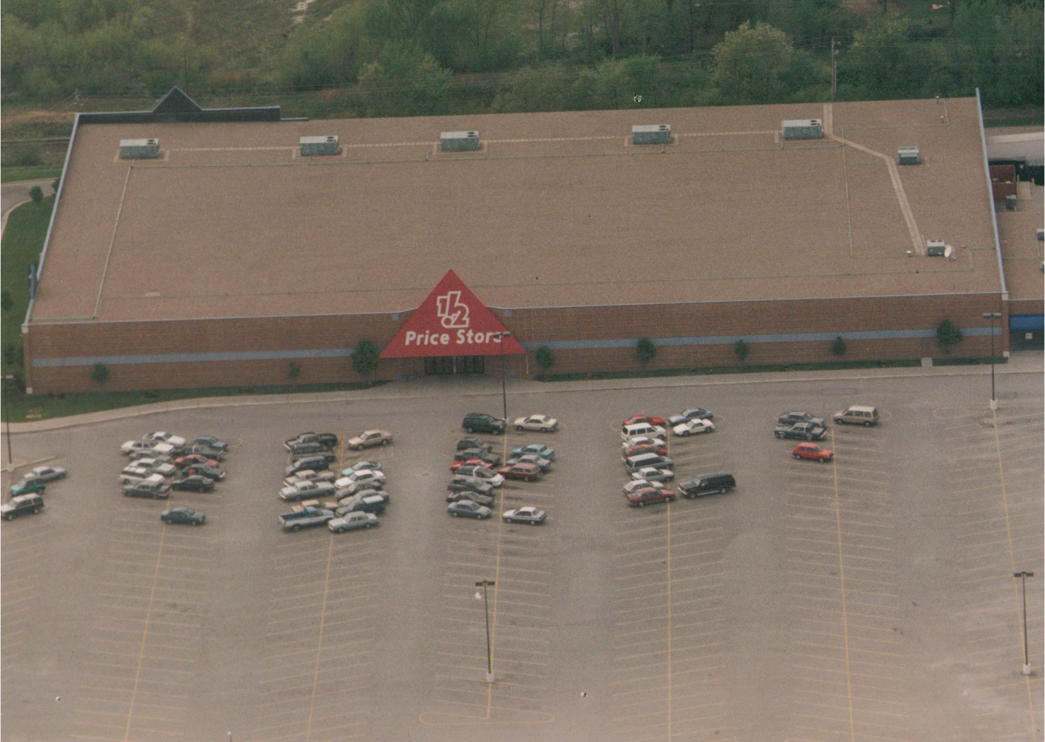 Arial view of a Half Price Store Location in Independence, Missouri taken in June of 1993